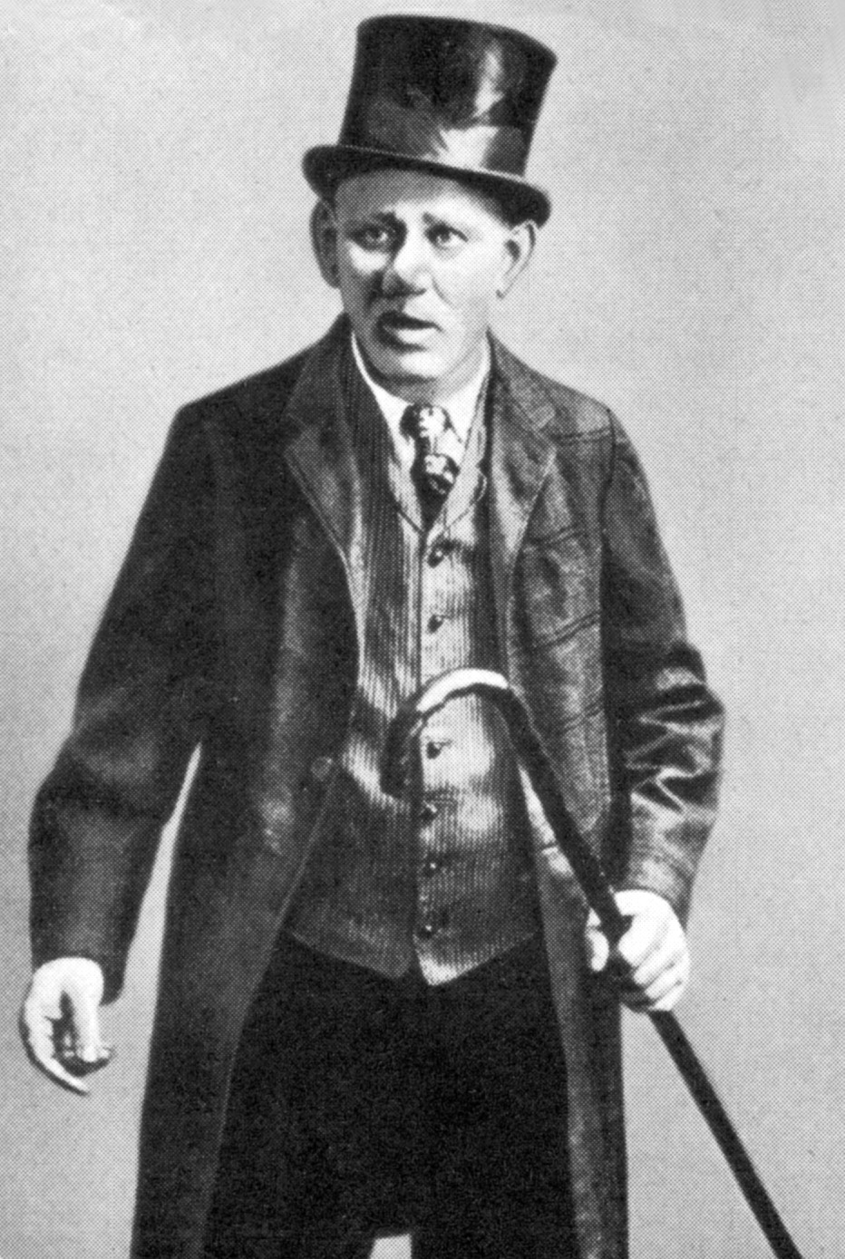 The comedian in one of his roles